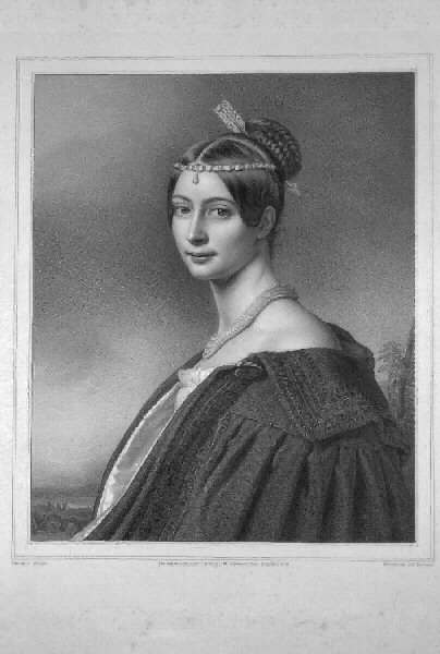 Wilhelmine von Dörnberg (1803-1835), married with Fürst Maximilian Karl von Thurn und Taxis Lithograph by Bodmer after a painting by Joseph Karl Stieler